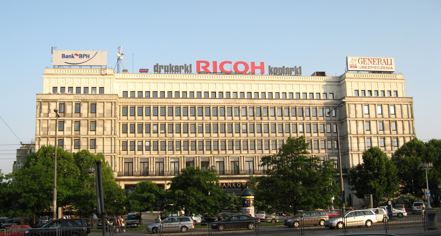 The former building of the Central Committee of the Polish United Workers' Party. The Polish People's Republic.